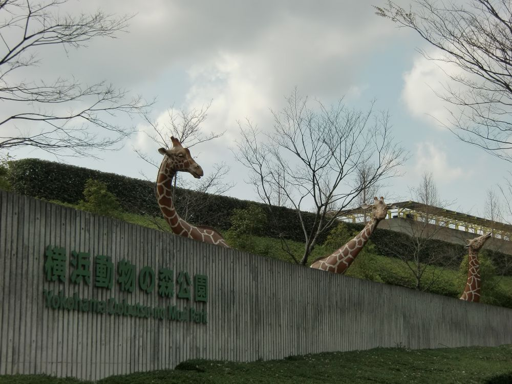 Zoorasia (Yokohama Zoological Gardens, Japan)